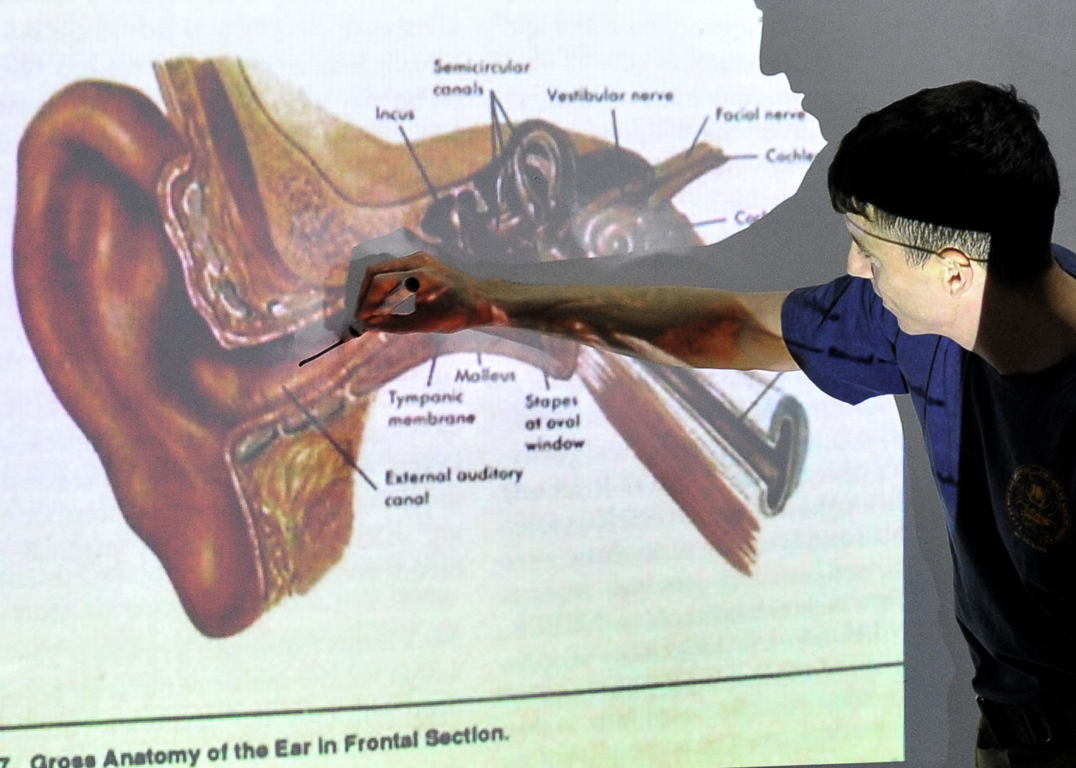 VALPARAISO, Chile (June 28, 2011) Lt. Benjay Kempner, assigned to Mobile Diving and Salvage Unit (MDSU) 2, explains the effects of pressure on the inner ear with dive medics of the Armada de Chile. MDSU-2 is participating in Navy Diver-Southern Partnership Station, a multi-national partnership engagement intended to increase interoperability and partner nation capability through diving operations. (U.S. Navy photo by Mass Communication Specialist 2nd Class Gregory N. Juday/Released)